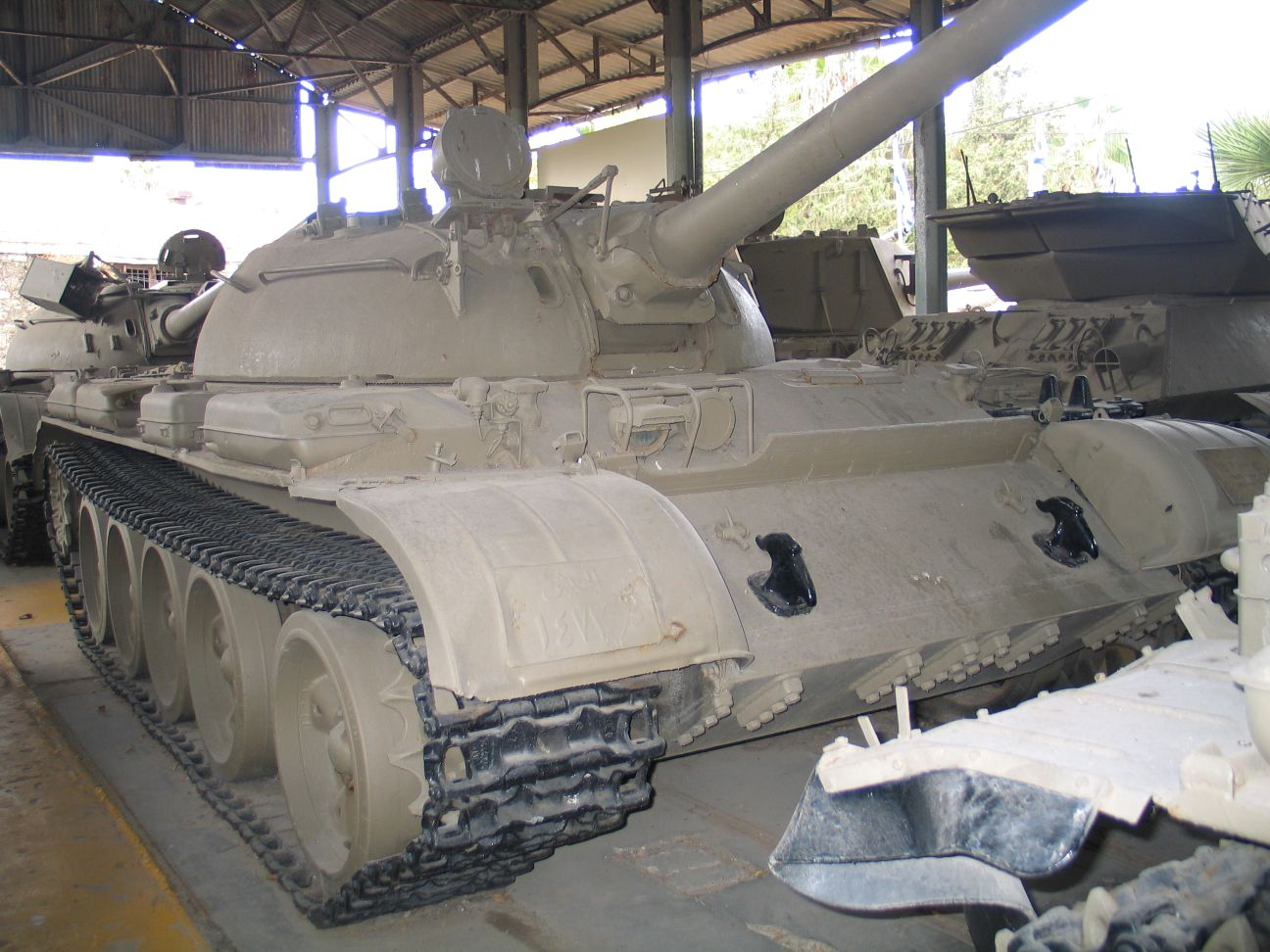 Description: T-55 tank in Batey ha-Osef Museum, Tel Aviv, Israel. 2005. Source: Photo by me, User:Bukvoed.